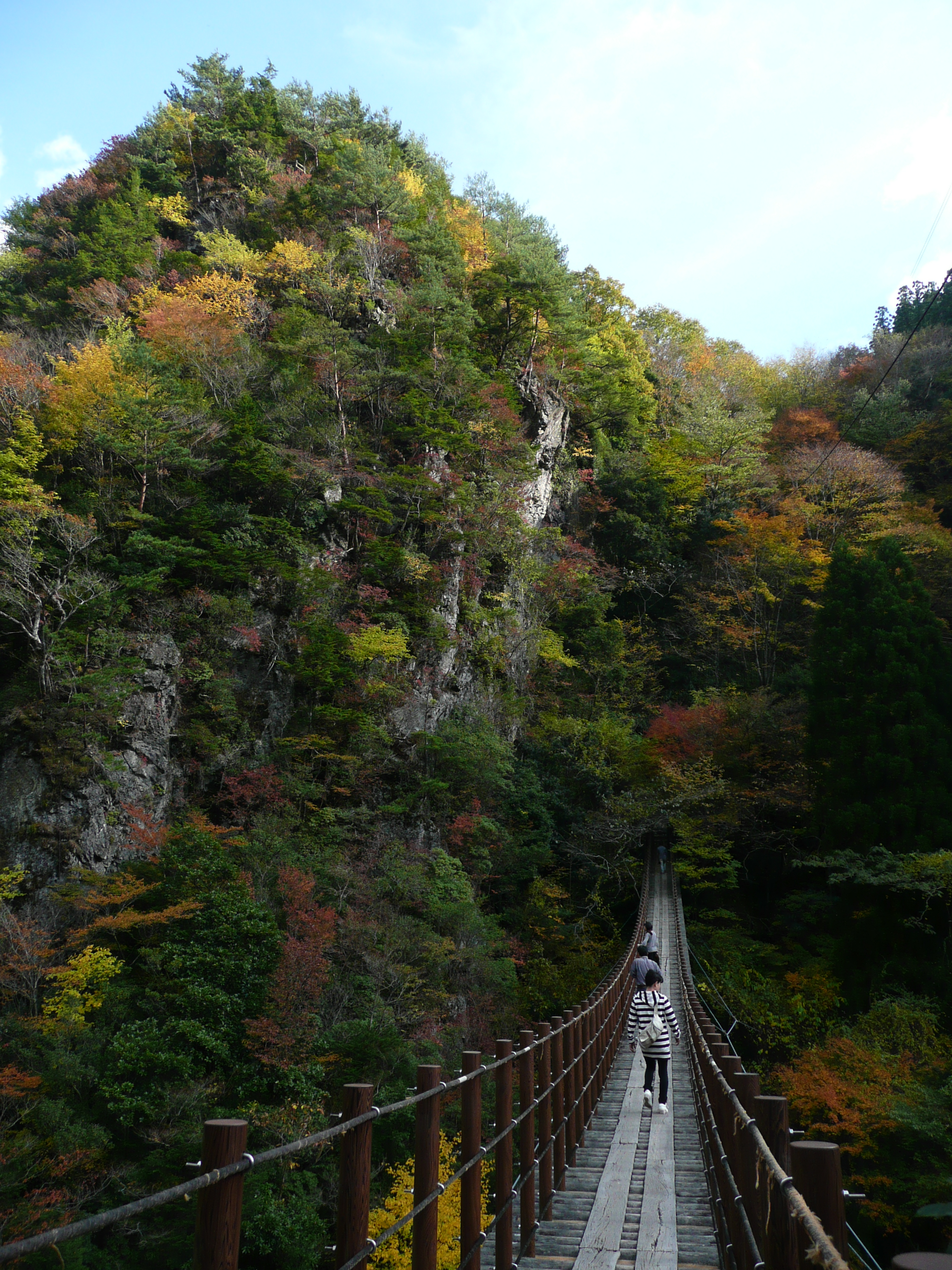 Momigi District - Ayatori Suspension Bridge (Yatsushiro City, Kumamoto, Japan)